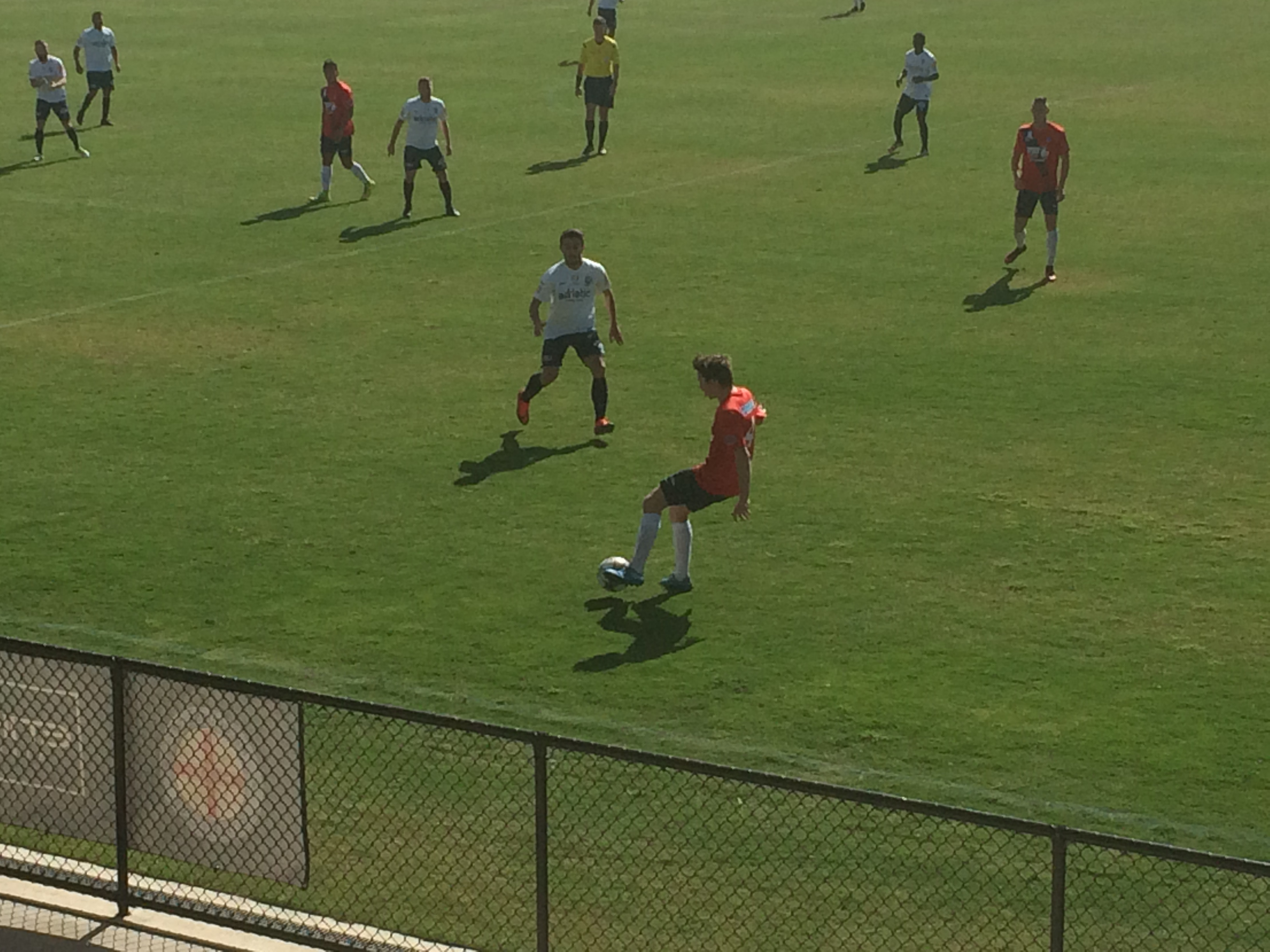 The South Hobart player is being closed down and is in the motion of passing the ball